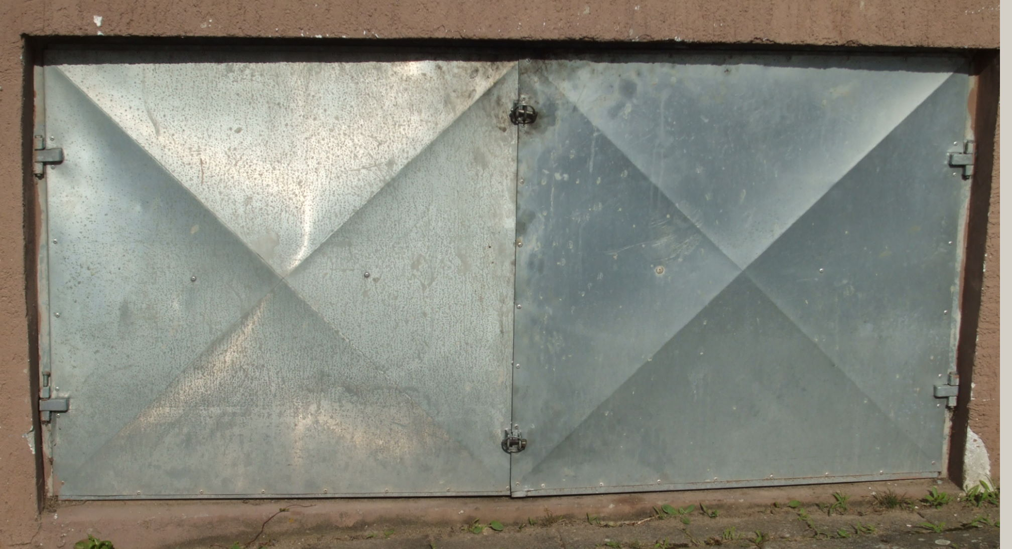 x-Fold-Bendig